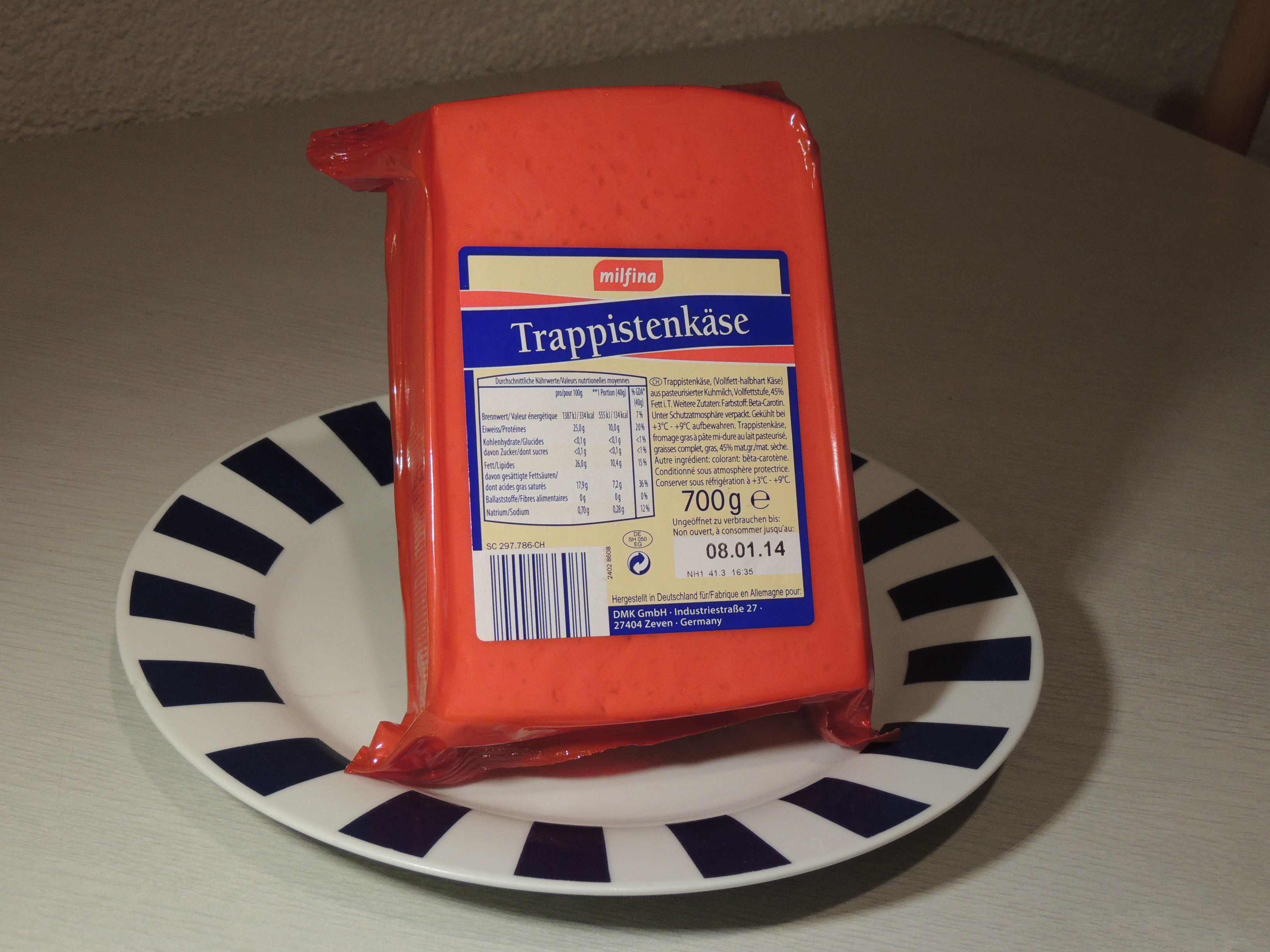 Packed Trappisten-cheese